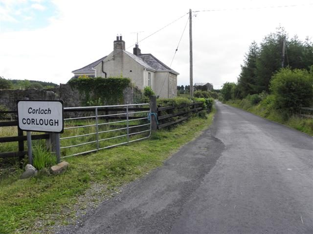 Corlough townland, Corlough parish, County Cavan, Republic of Ireland. Looking SSE.